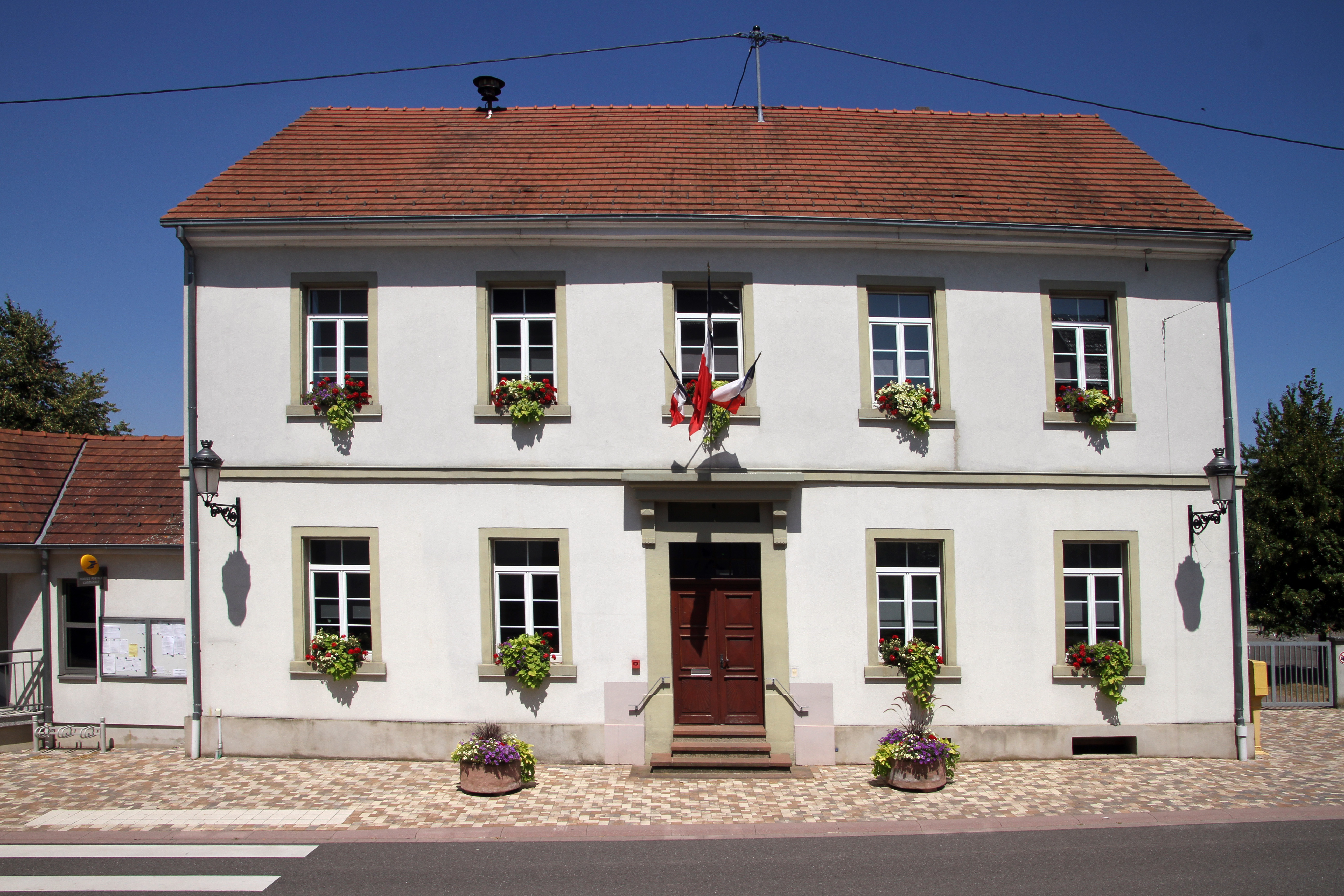 City hall of Salmbach.